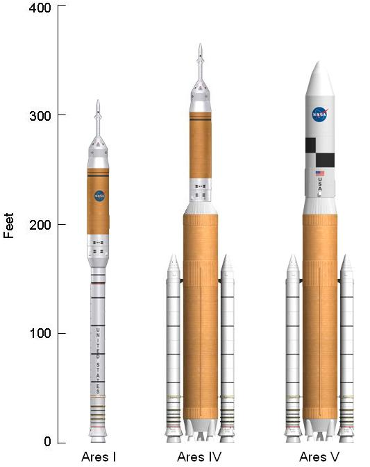 This is a comparison of the Ares I, Ares IV, and Ares V rockets, proposed for NASA's Project Constellation.